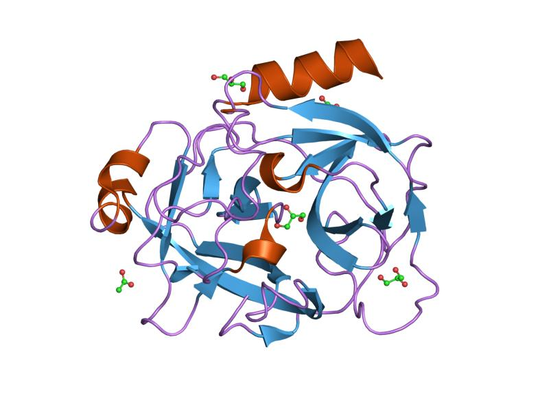 Cartoon representation of the molecular structure of protein registered with 1gvz code.